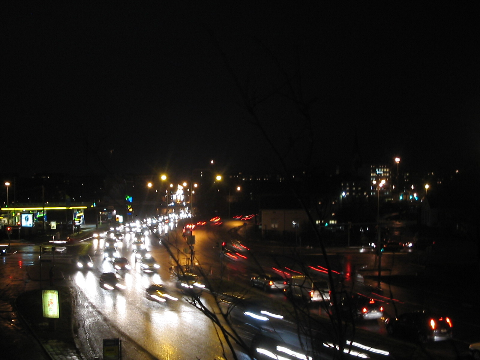 Naantalin pikatie street before the city center in Turku, Finland. Picture is taken from the crossing of Naantalin pikatie and Köydenpunojankatu towards Turku city centre. Two continuing one-way streets are some of the busiest in the area.